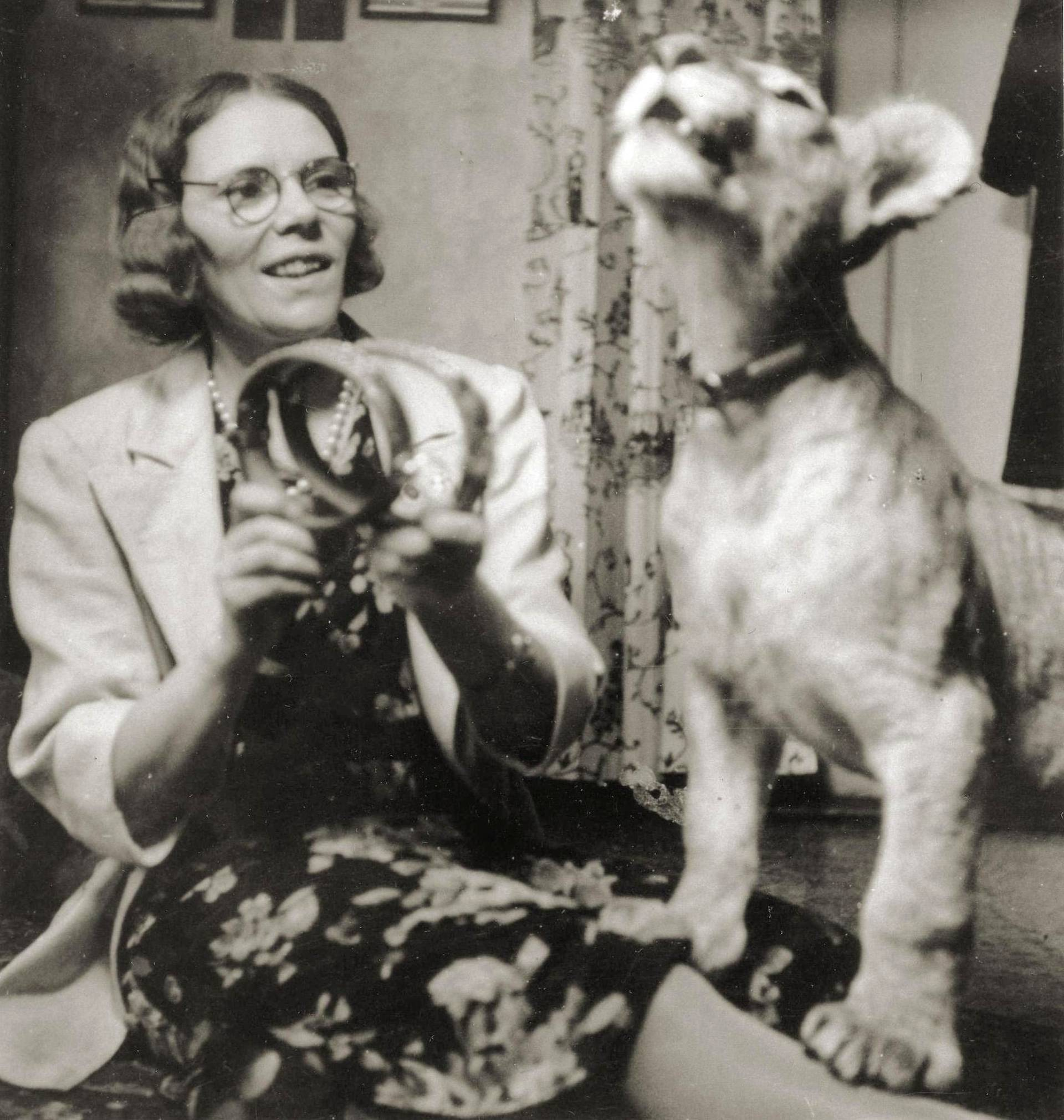 Photograph of the Finnish cult leader Maria Åkerblom (1898–1981) with a cub of a lion.